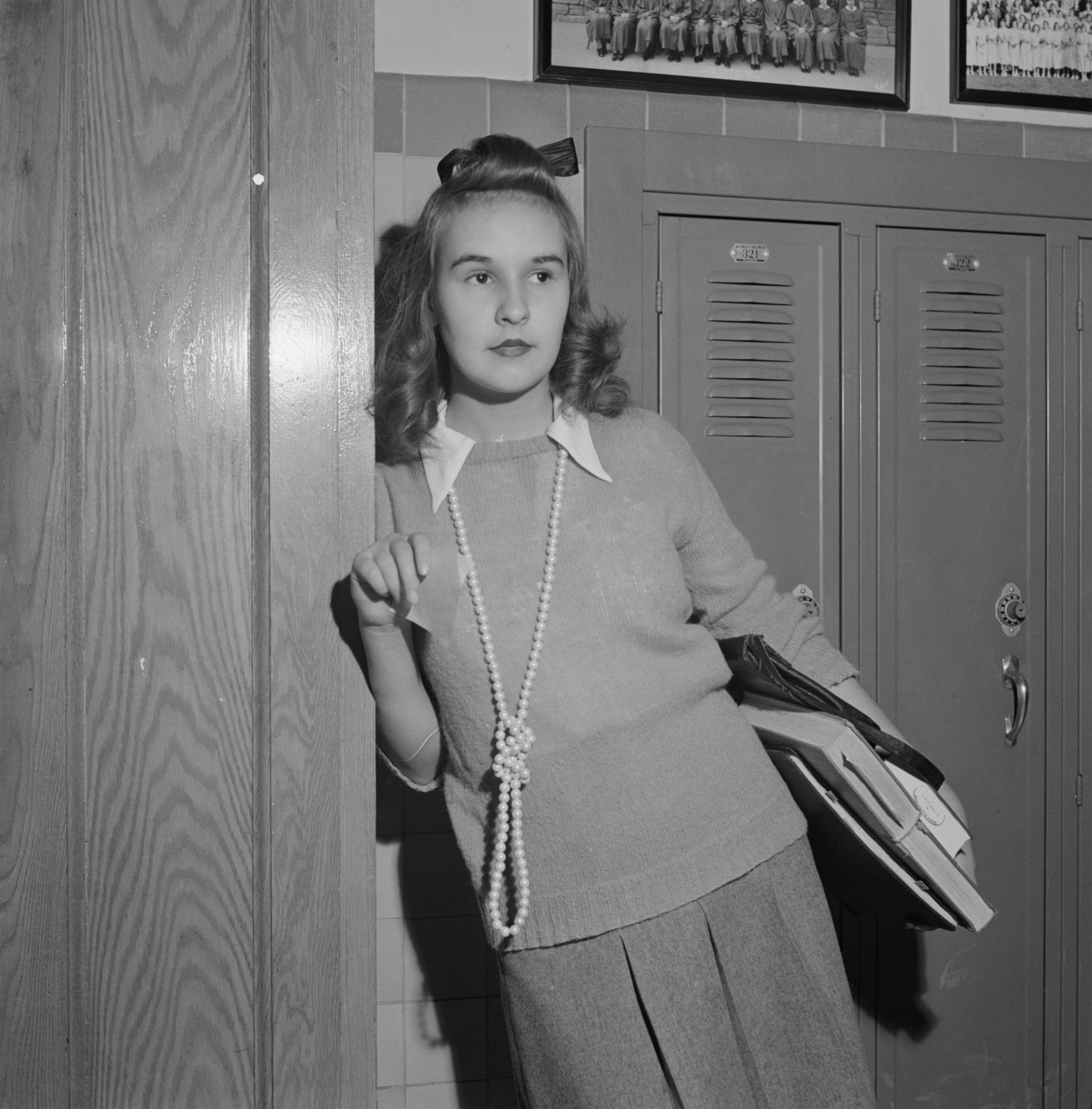 Washington, D.C. Sweaters and long ropes of beads are popular with the girls at Woodrow Wilson High School United States--District of Columbia--Washington (D.C.) District Of Columbia--Washington (D.C.)